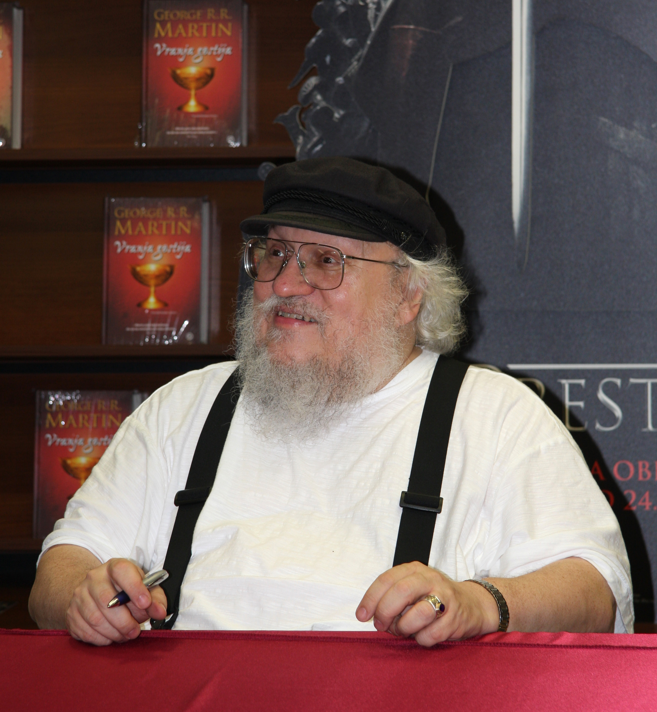 George R.R. Martin signing books in a bookstore in Ljubljana, Slovenia.